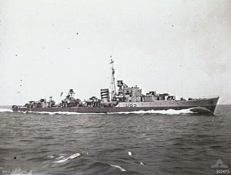 Photograph of British destroyer HMS Rocket (H92).